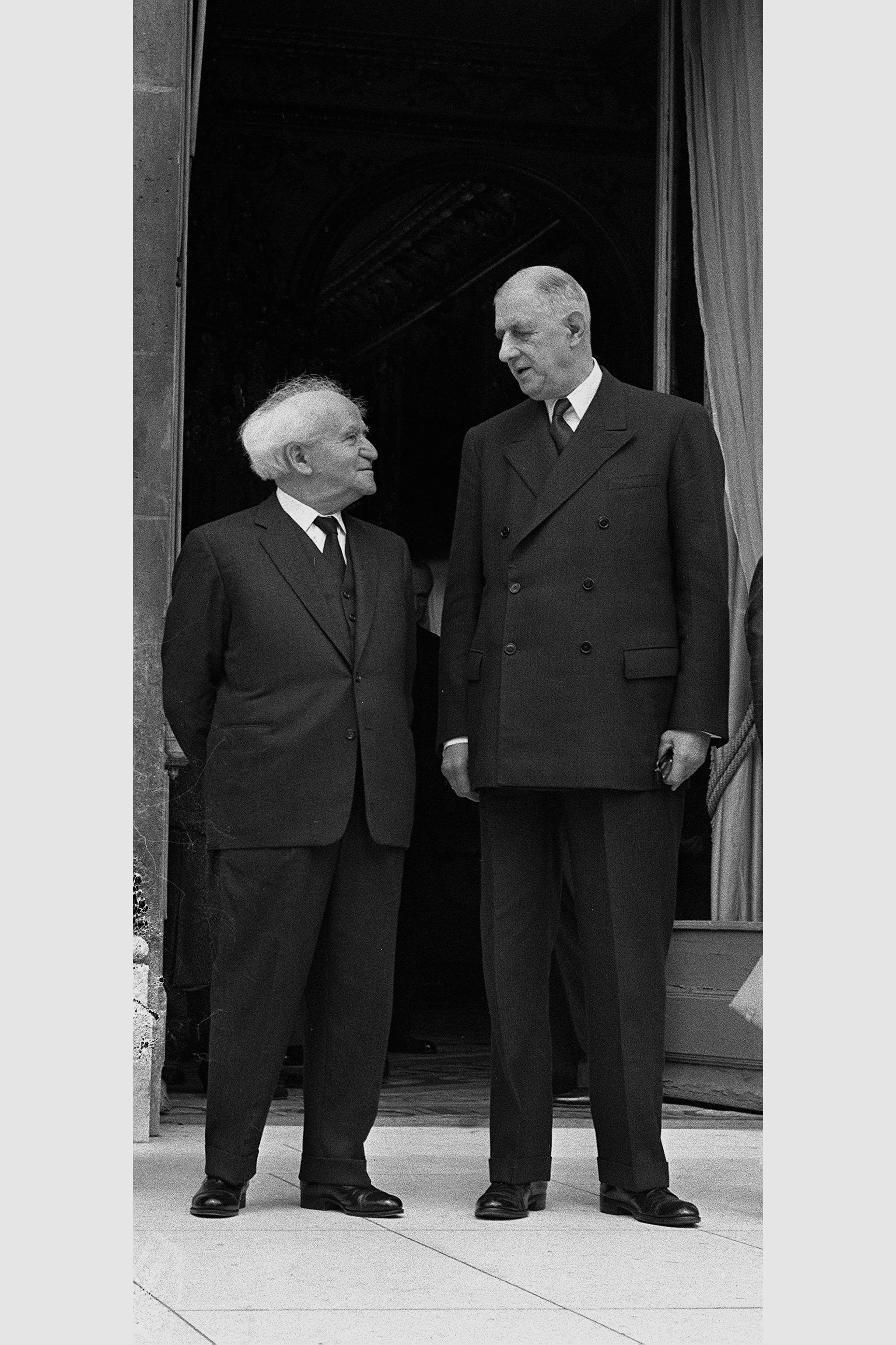 P.M. David Ben Gurion has his first meeting with general Charles de Gaulle, pres. of France at the Palais de L'elysee in Paris, during his official visit to France. Depicted people: David Ben-Gurion and Charles de Gaulle Depicted place: Élysée Palace